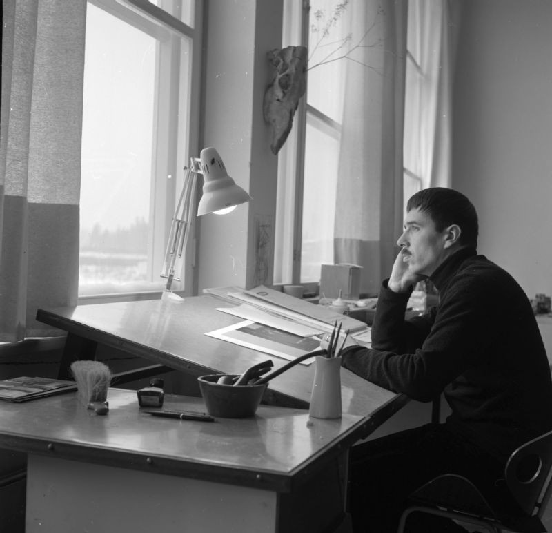 Photograph of the Finnish artist and designer Kimmo Kaivanto (1932–2012) at his workplace, the advertisement agency Mainos-Lehmus.